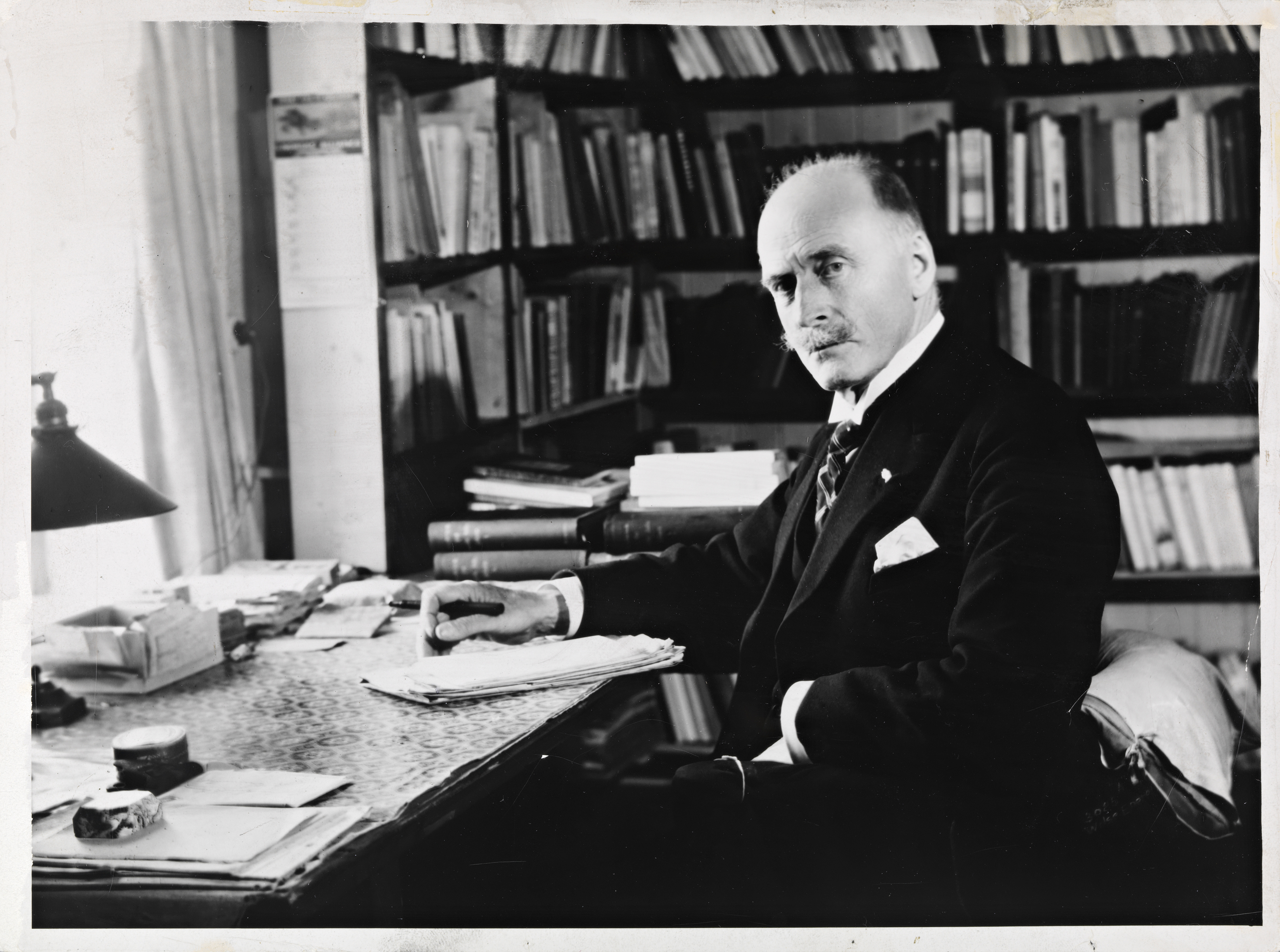 Dato / Date: 1929 Fotograf / Photographer: Anders Beer Wilse (1865-1949) Sted / Place: Aust-Agder, Grimstad, Nørholm Eier / Owner Institution: Nasjonalbiblioteket / National Library of Norway Lenke / Link: Bildesignatur / Image Number: bldsa_HA0249